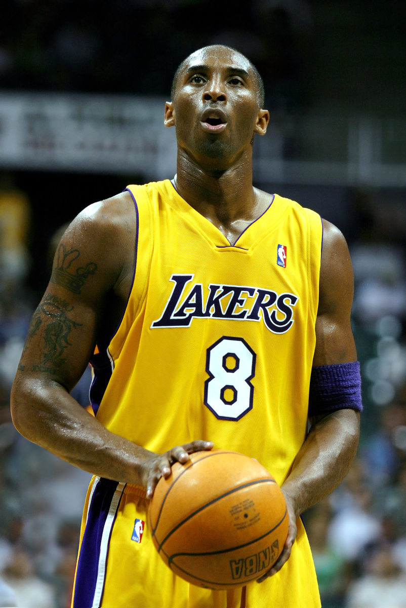 Kobe Bryant, Lakers shooting guard, stands ready to shoot a free throw during Tuesday nights pre-season game against the Golden State Warriors. Bryant was essential in bringing together a large point gap late in the second quarter, after the Warriors took the early lead.